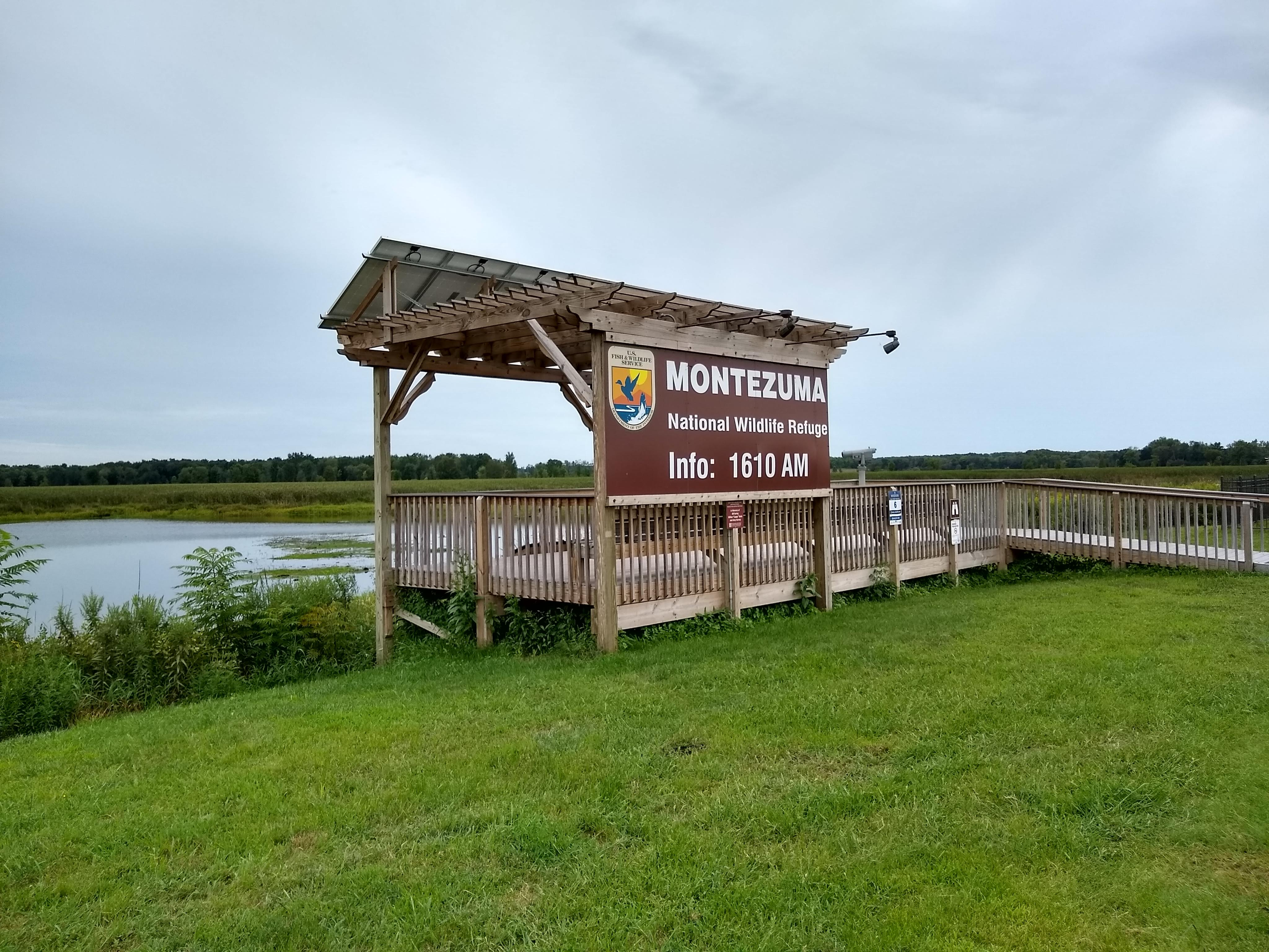 Viewing platform with sign at Montezuma National Wildlife Refuge